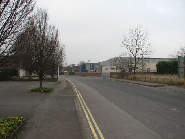 View down the main Osney Mead road in Oxford, England. The cream coloured building on the left used to be a drinks warehouse which was broken into a few times while I worked at Oxford Instruments. I heard it is now something to do with Video games.